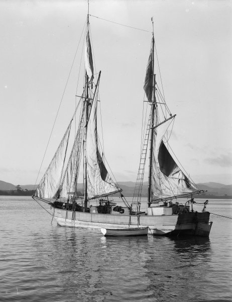 The sailing scow Winnie, probably in the Christchurch area, New Zealand around the 1900s. Extended information on origin webpage reads: Ketch scow Winnie / Date unknown, circa 1900? / Reference number: 1/1-002497-G / 1 b&w original negative(s). Glass negative. / Part of The Press :Collection of negatives (PAColl-3031) / Ketch scow Winnie, probably in the Christchurch Region. Date unknown, circa 1900?. Photographer unidentified.